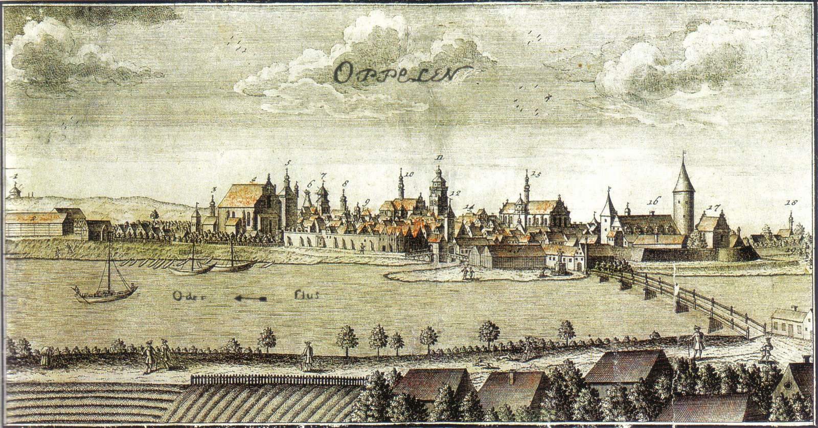 City of Oppelen (today Opole).